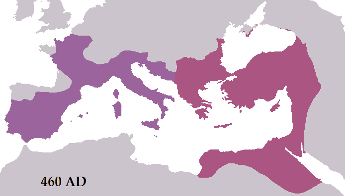 The Roman Empire during the reigns of Majorian and Leo I. Majorian ruled the western half for four years from 457 to 461, whereas Leo ruled the eastern half for seventeen, from 457 to 474.